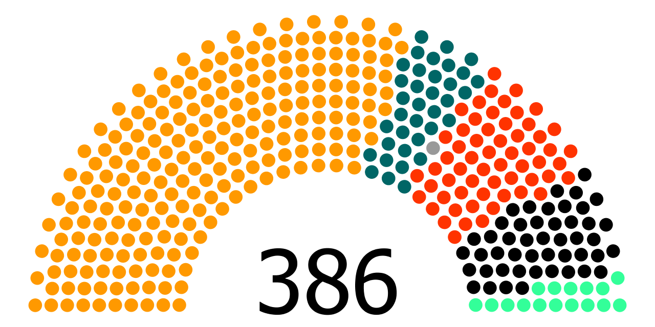 Structure diagram, 2010 Hungarian National Assembly